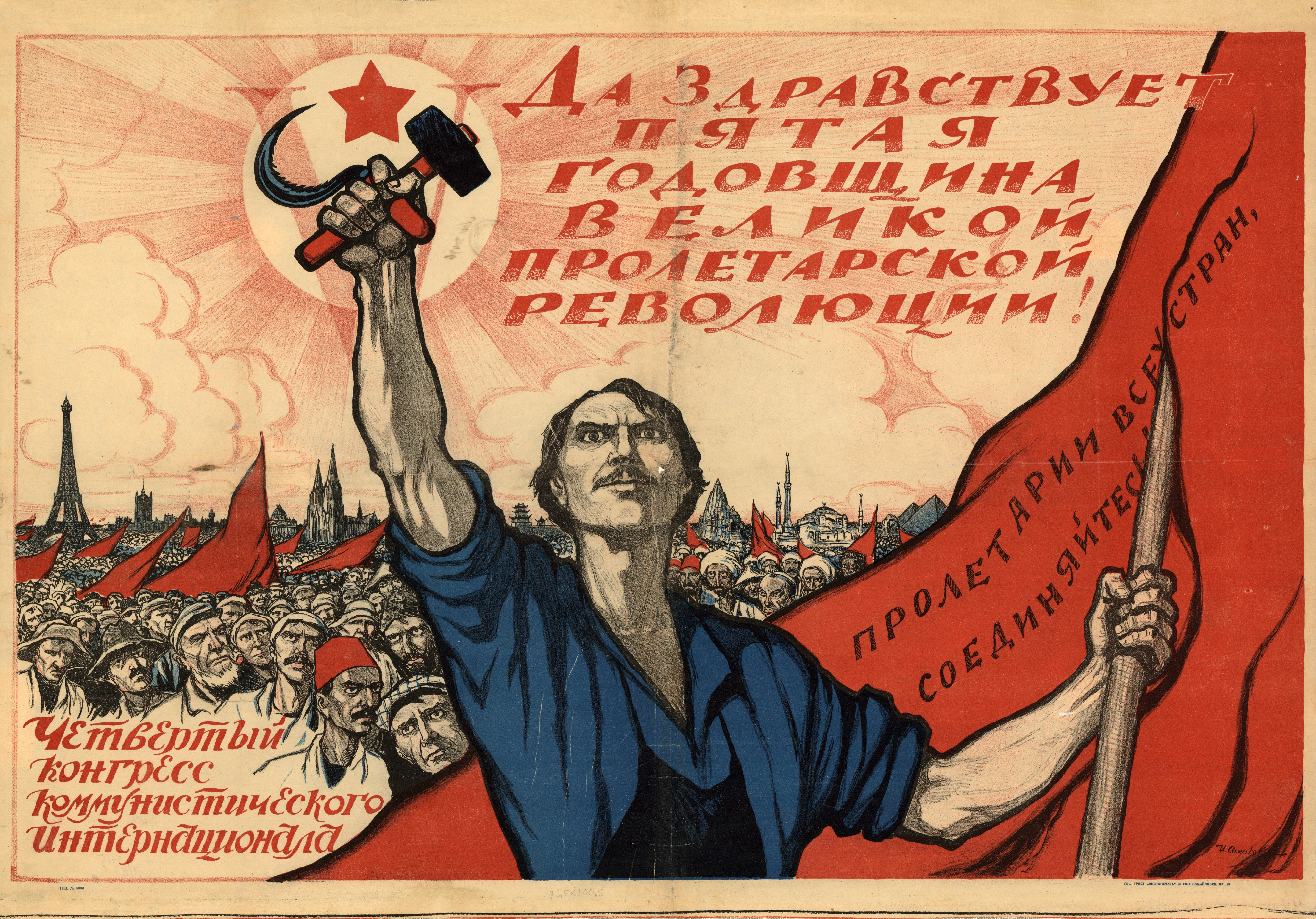 Soviet poster dedicated to the 5th anniversary of the October Revolution and IV Congress of the Communist International.